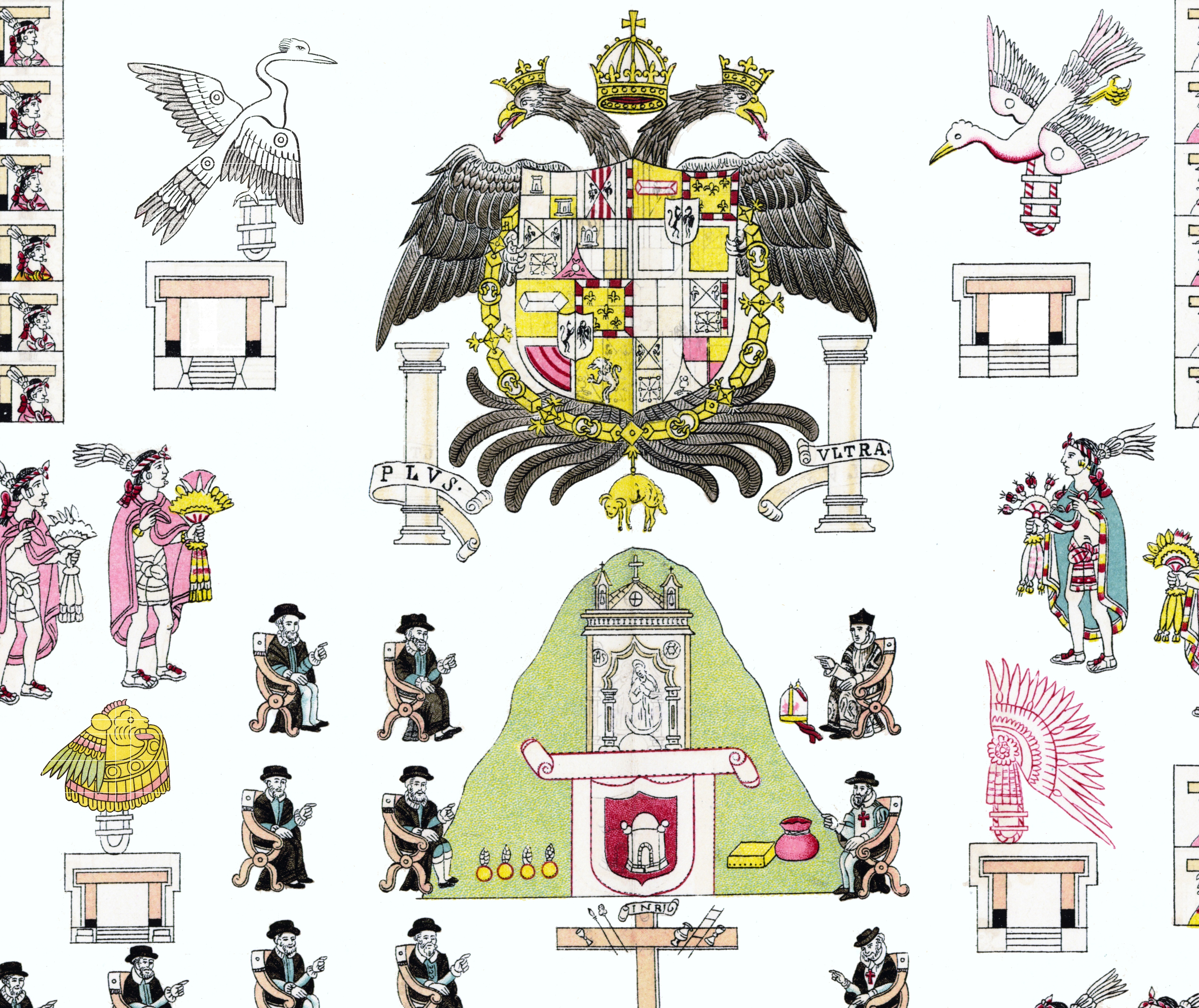 Detalle del lienzo de Tlaxcala